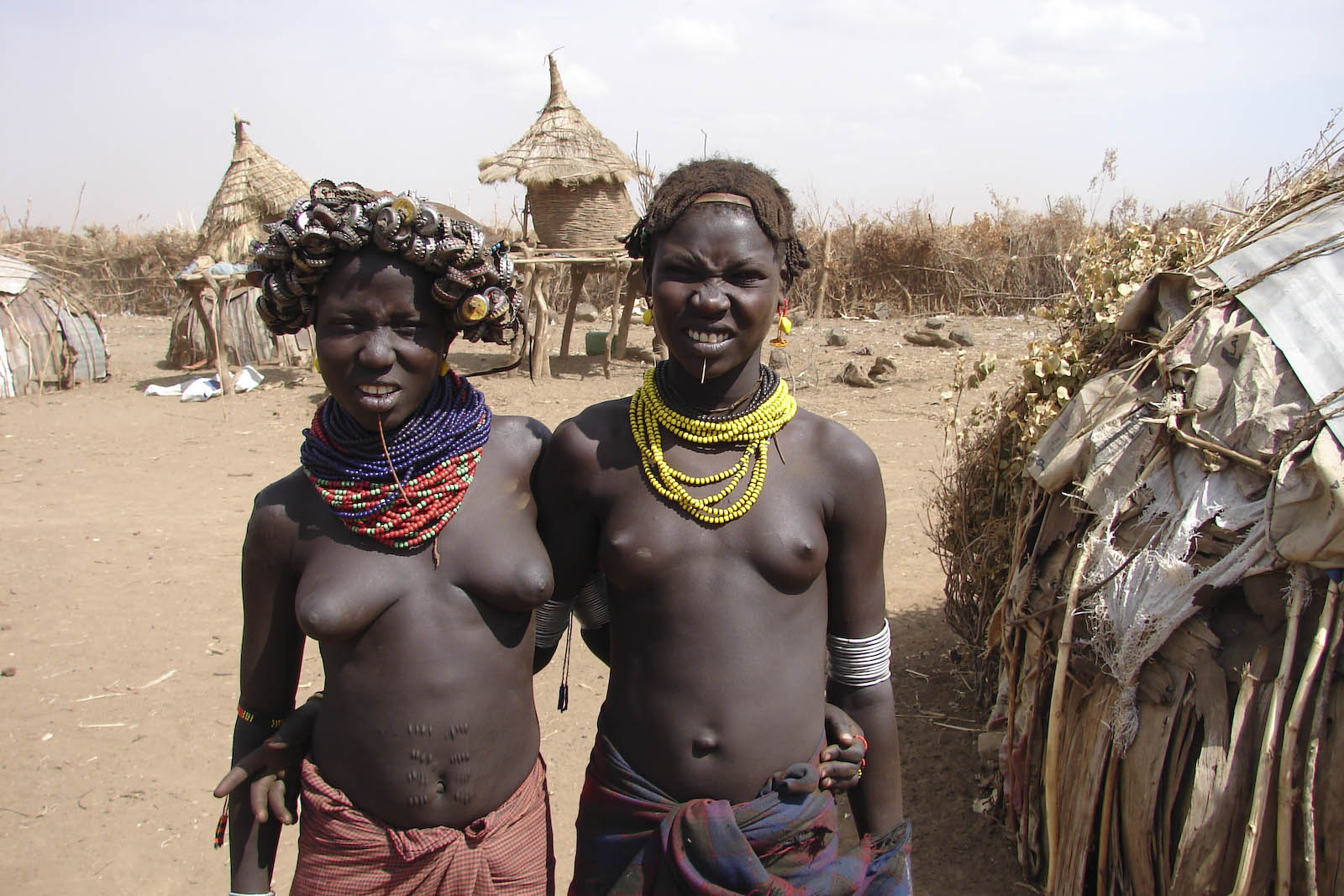 Dassanech tribe (Omorate, Ethiopia)